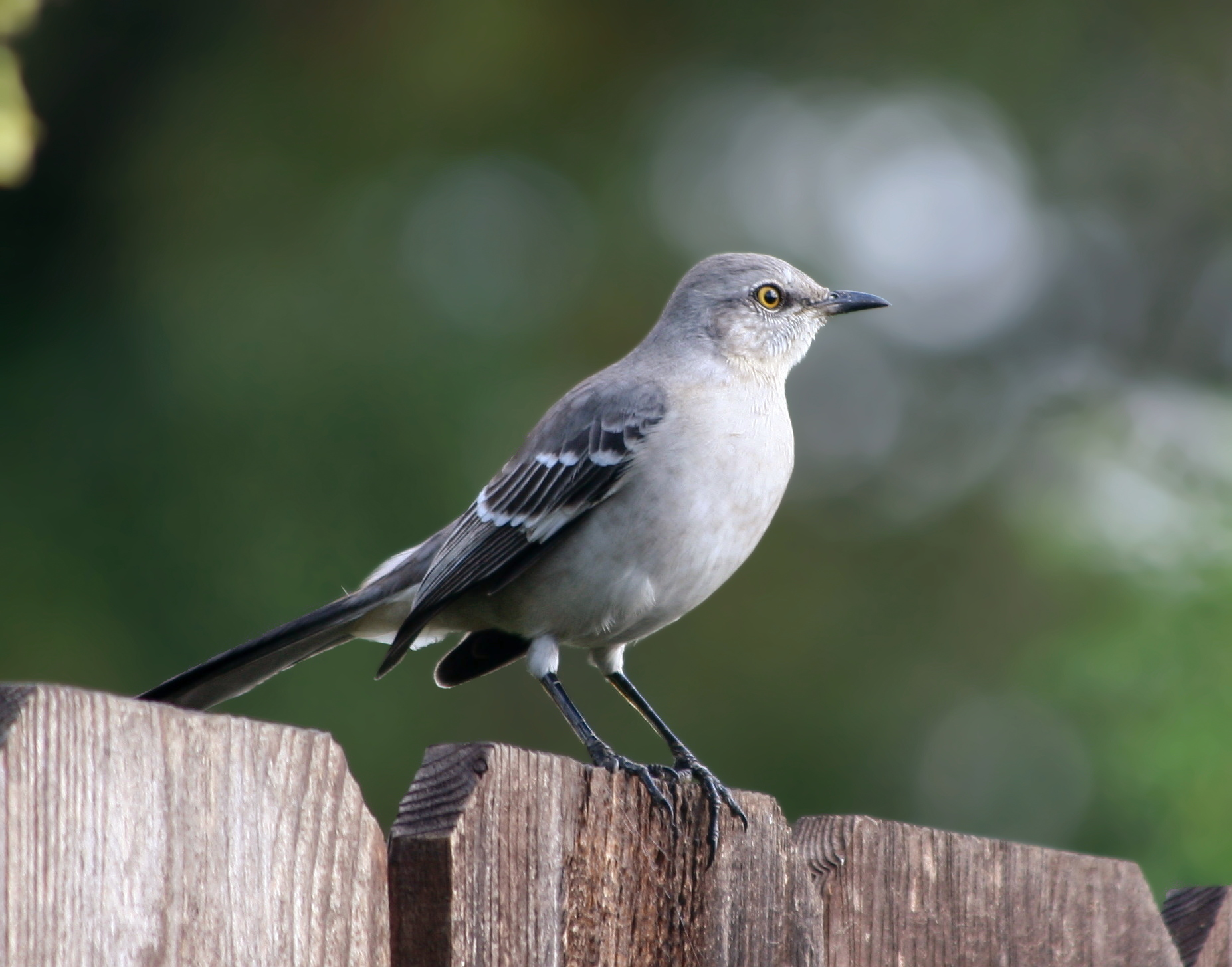 Northern Mockingbird (Mimus polyglottos) taken inside Lodi, California.